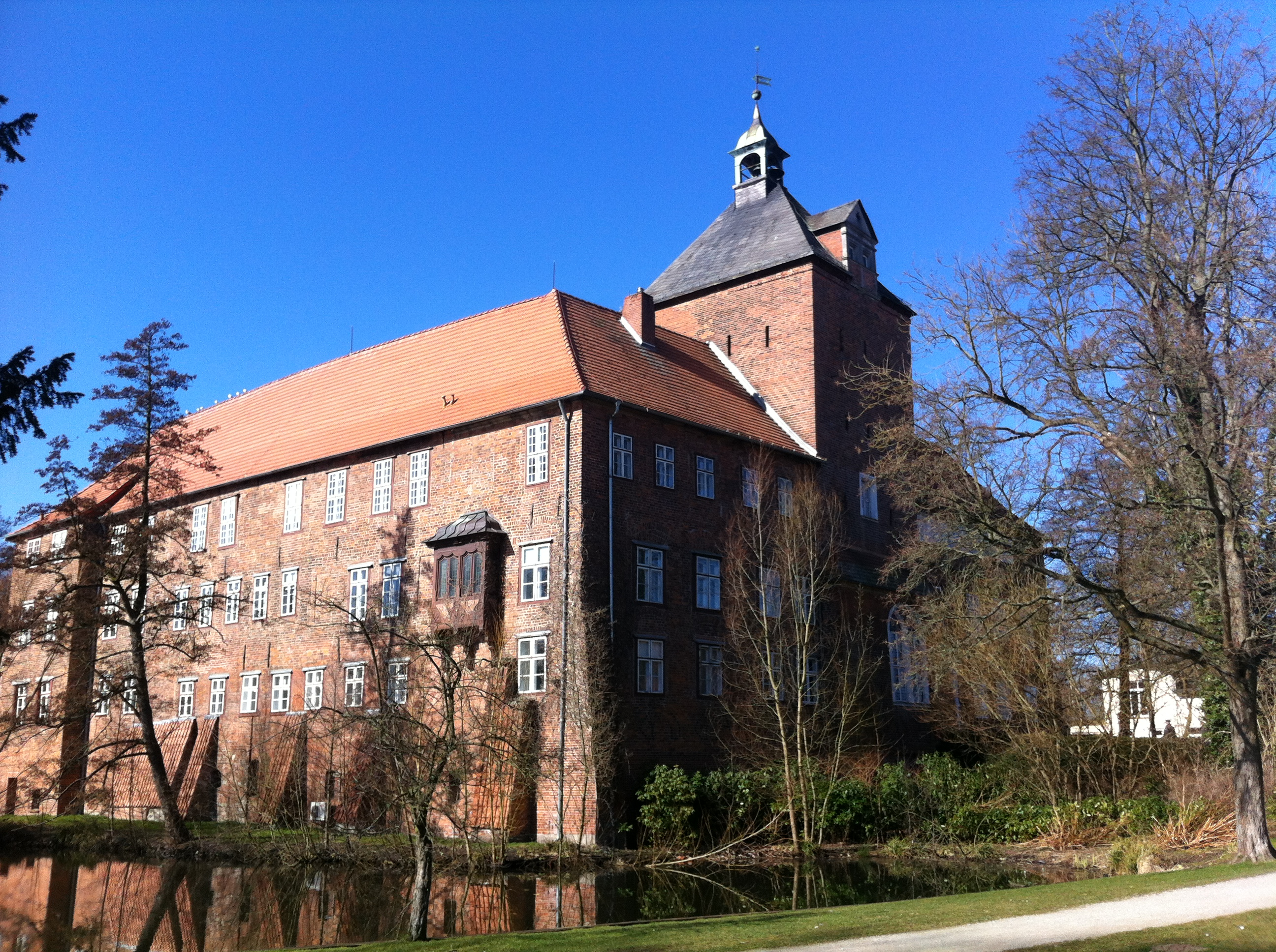 Castle Winsen (Luhe)